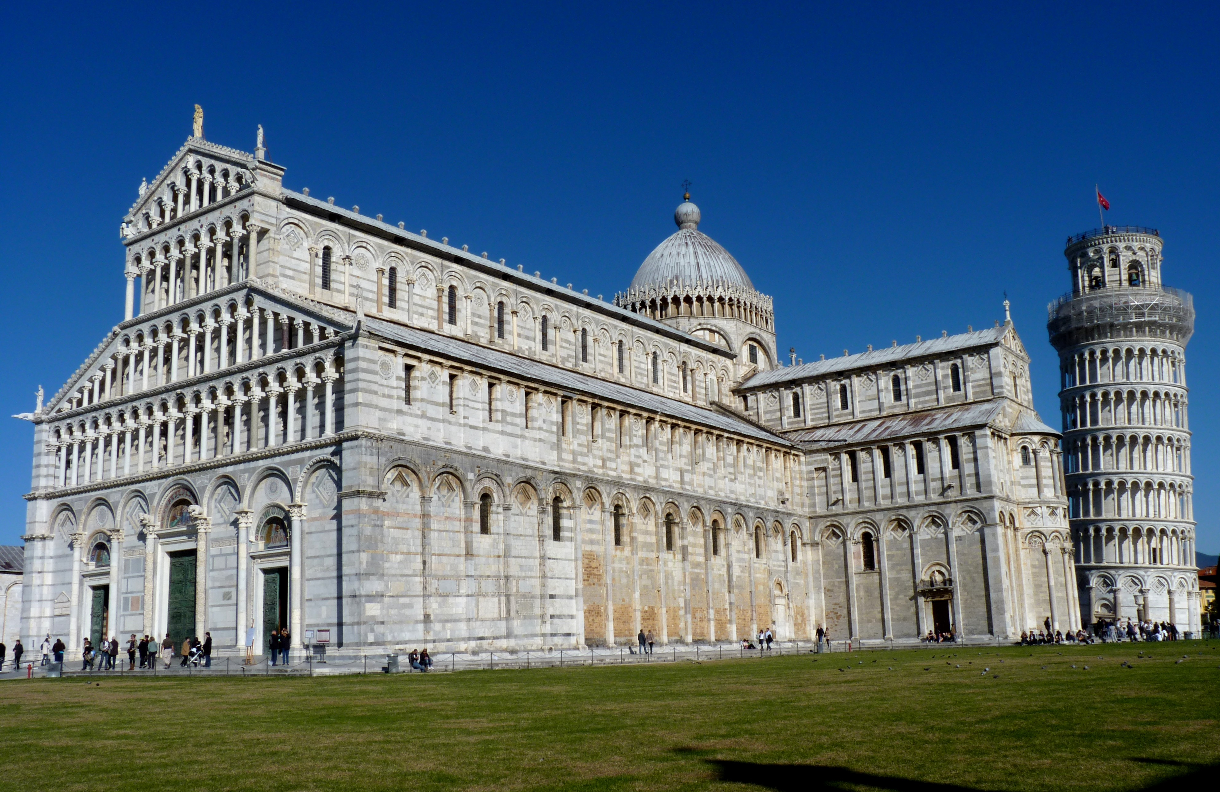 The Cathedral and the Leaning Tower in Pisa.